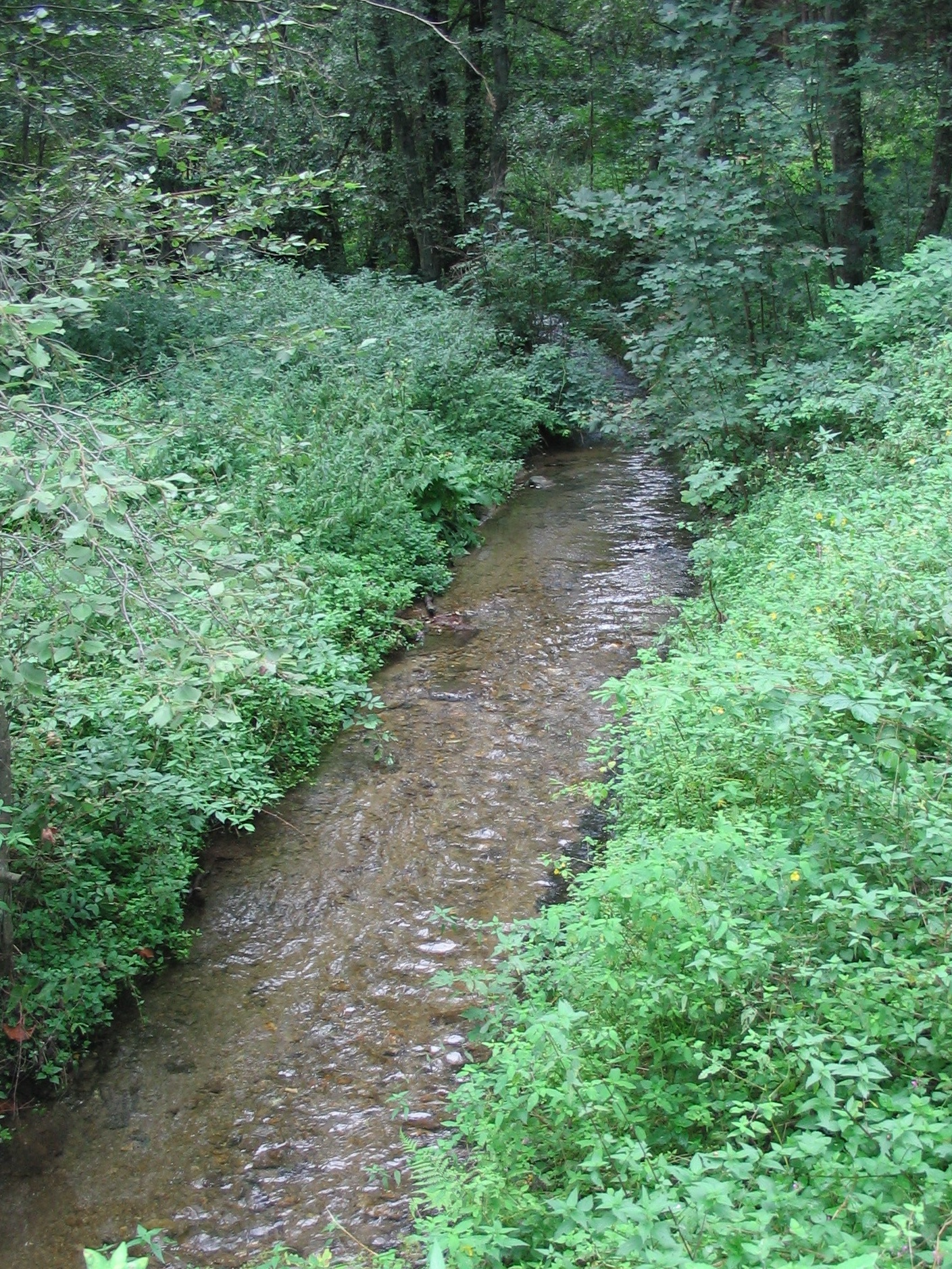 Zlatý potok ("Golden brook") in nature reserve Amálino údolí ("Amalia's valley"), Klatovy District, Czech Republic